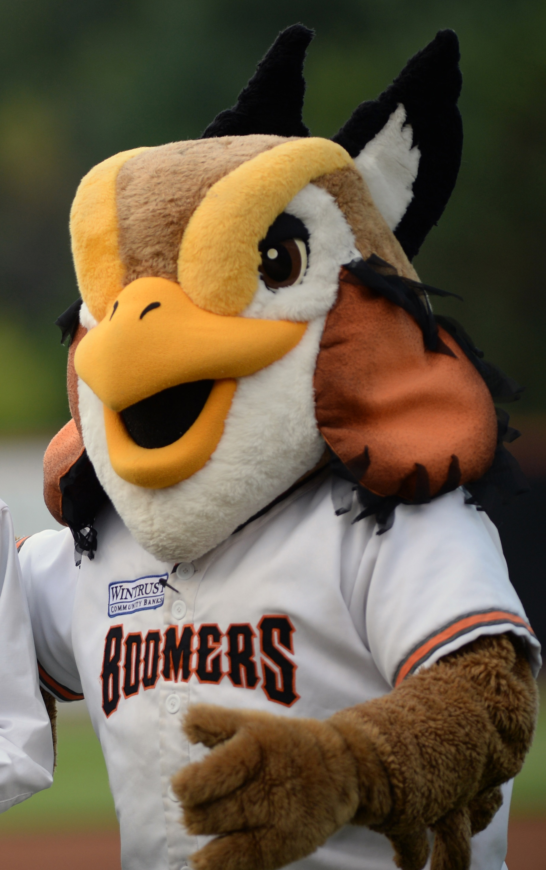 Coop, mascot of the Schaumburg Boomers minor league baseball team.